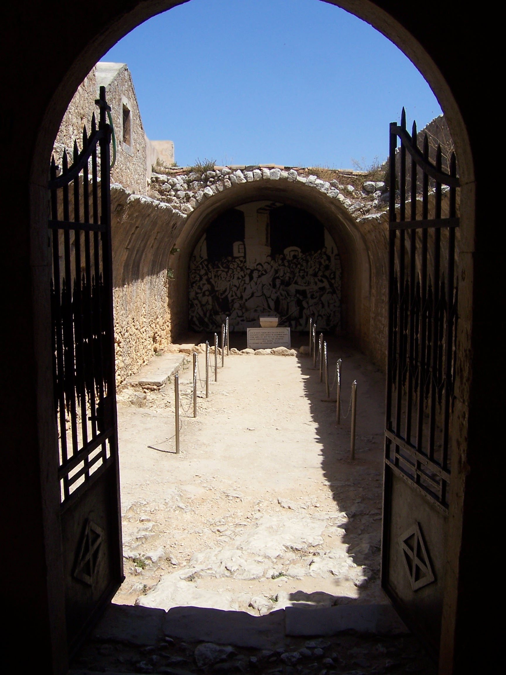 Arkadi gunpowder storeroom (Crete, Greece)